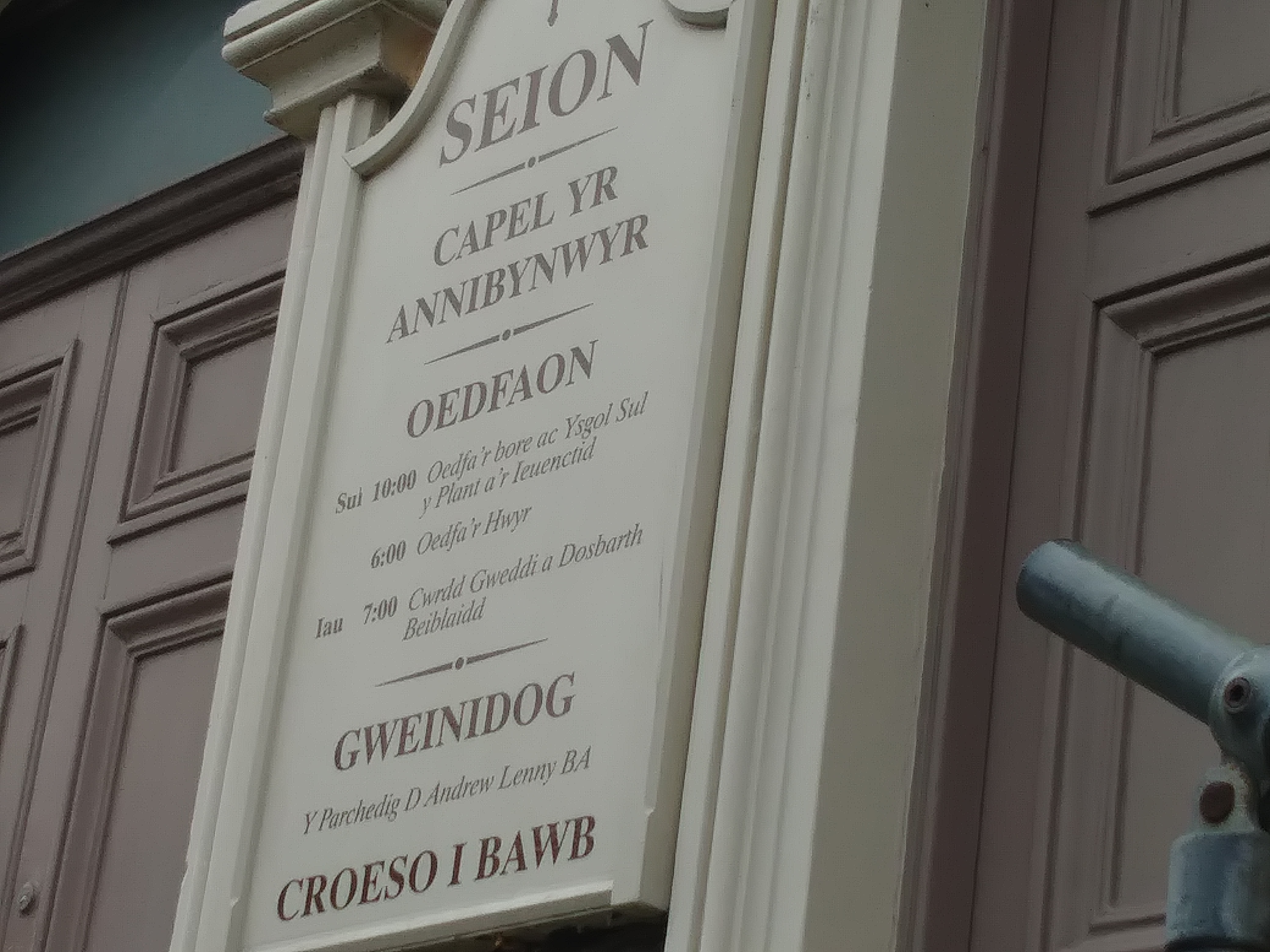 Capel Seion, Baker St, Aberystwyth, sign